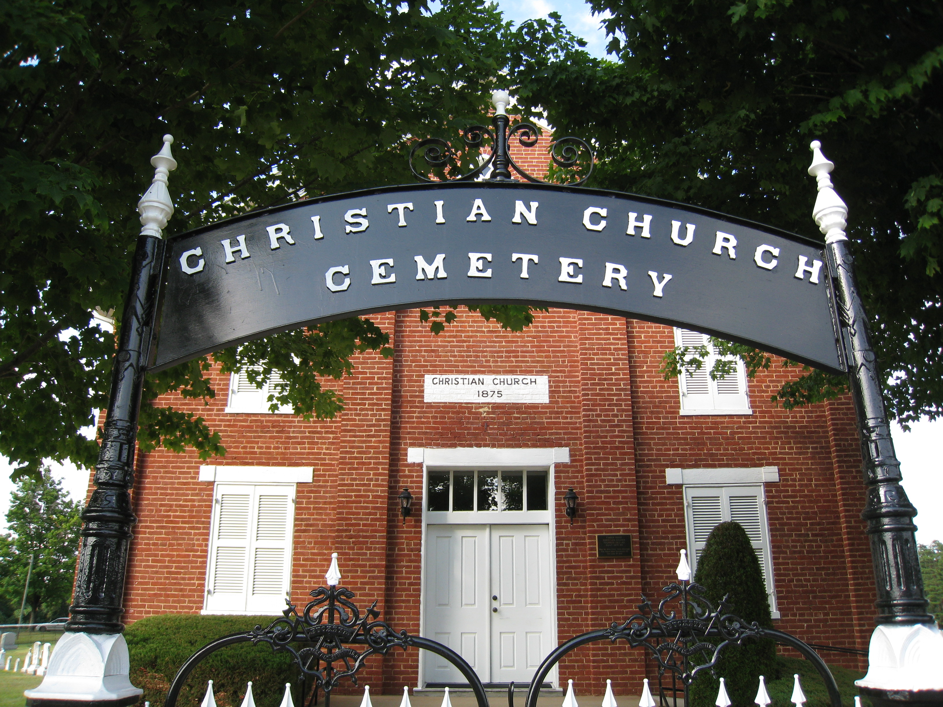 Timber Ridge Christian Church (1875) along Christian Church Road (County Route 13) in High View, West Virginia, United States.